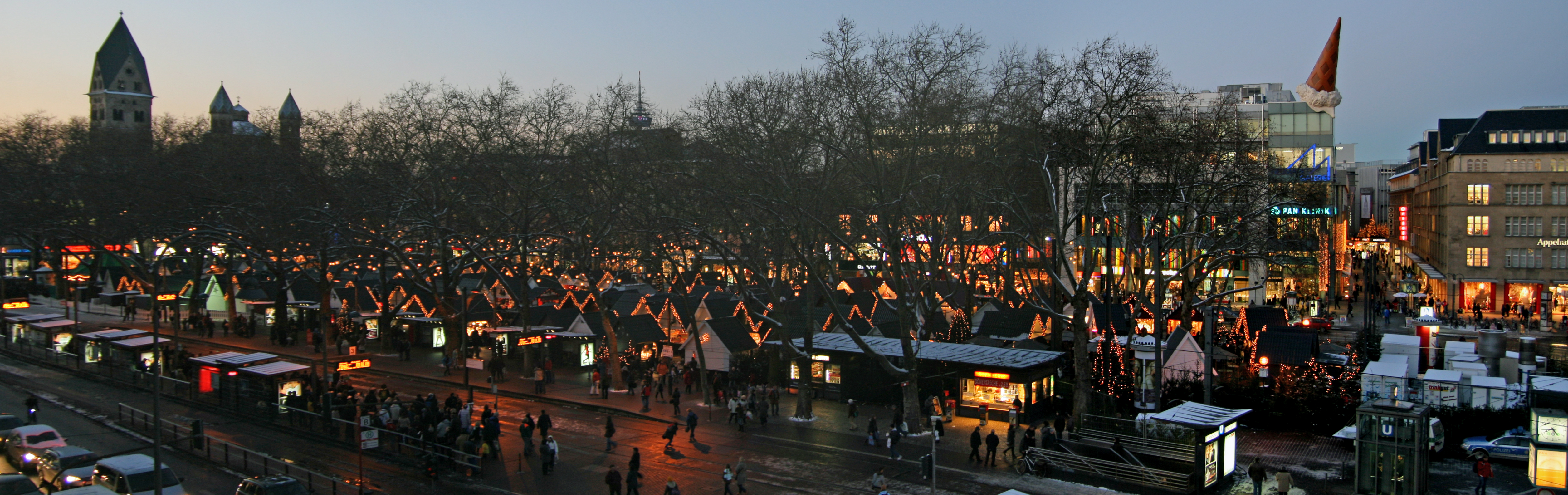 Christmas Market Neumarkt, Cologne, Germany